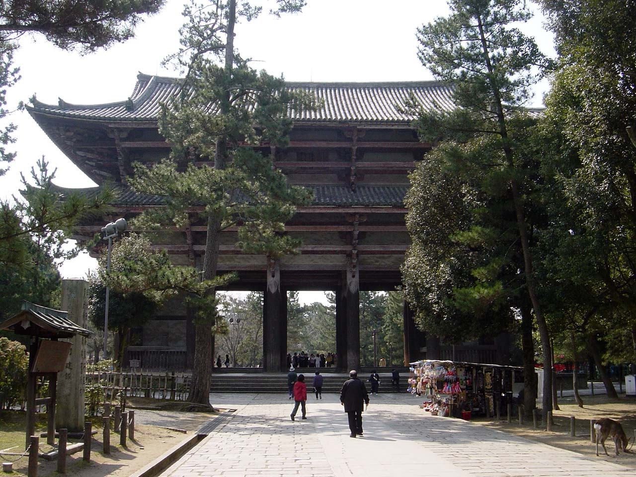 Photo taken by Bobak Ha'Eri. March 2005. Please observe license and properly cite in use outside Wikipedia.